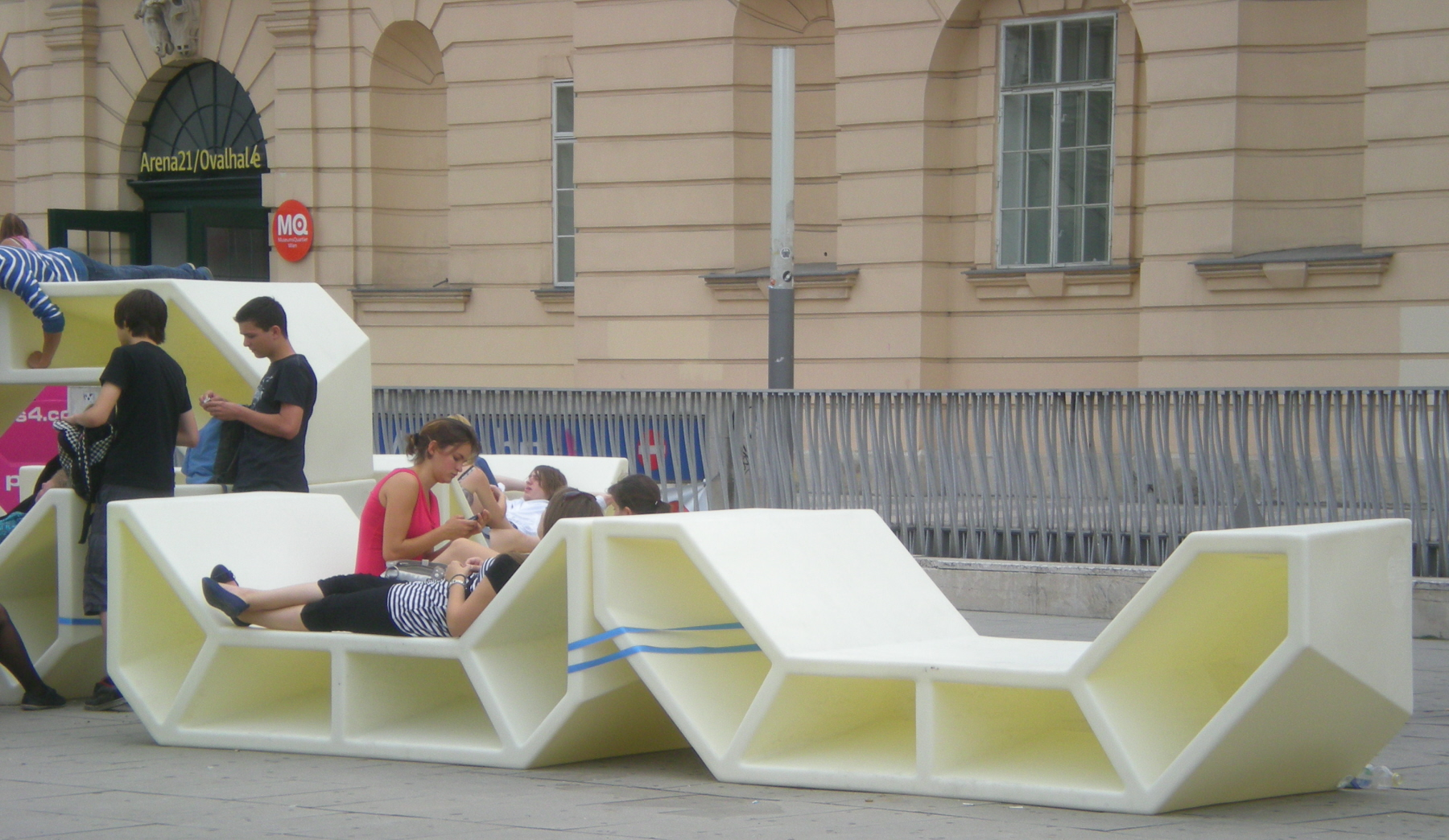 Austria, Vienna, Museumsquartier